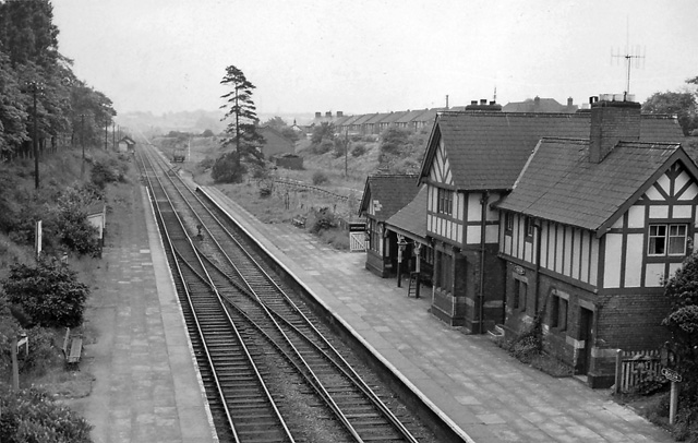 Blacon Station. View eastward, towards Chester (and Manchester); ex-GC Chester (Northgate) - Hawarden line, which was closed to passengers on 9/9/68, but the route by-passing Chester remained in use until the mid-1990s.